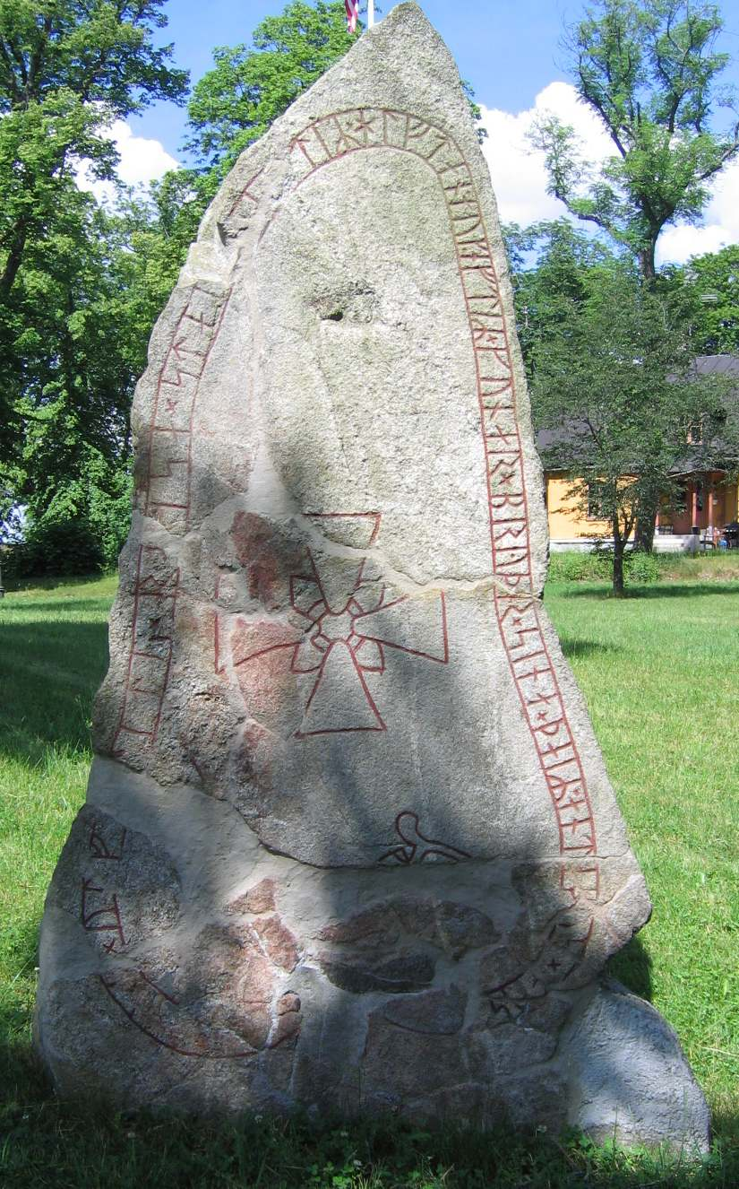 Runestone U 153 in Täby.